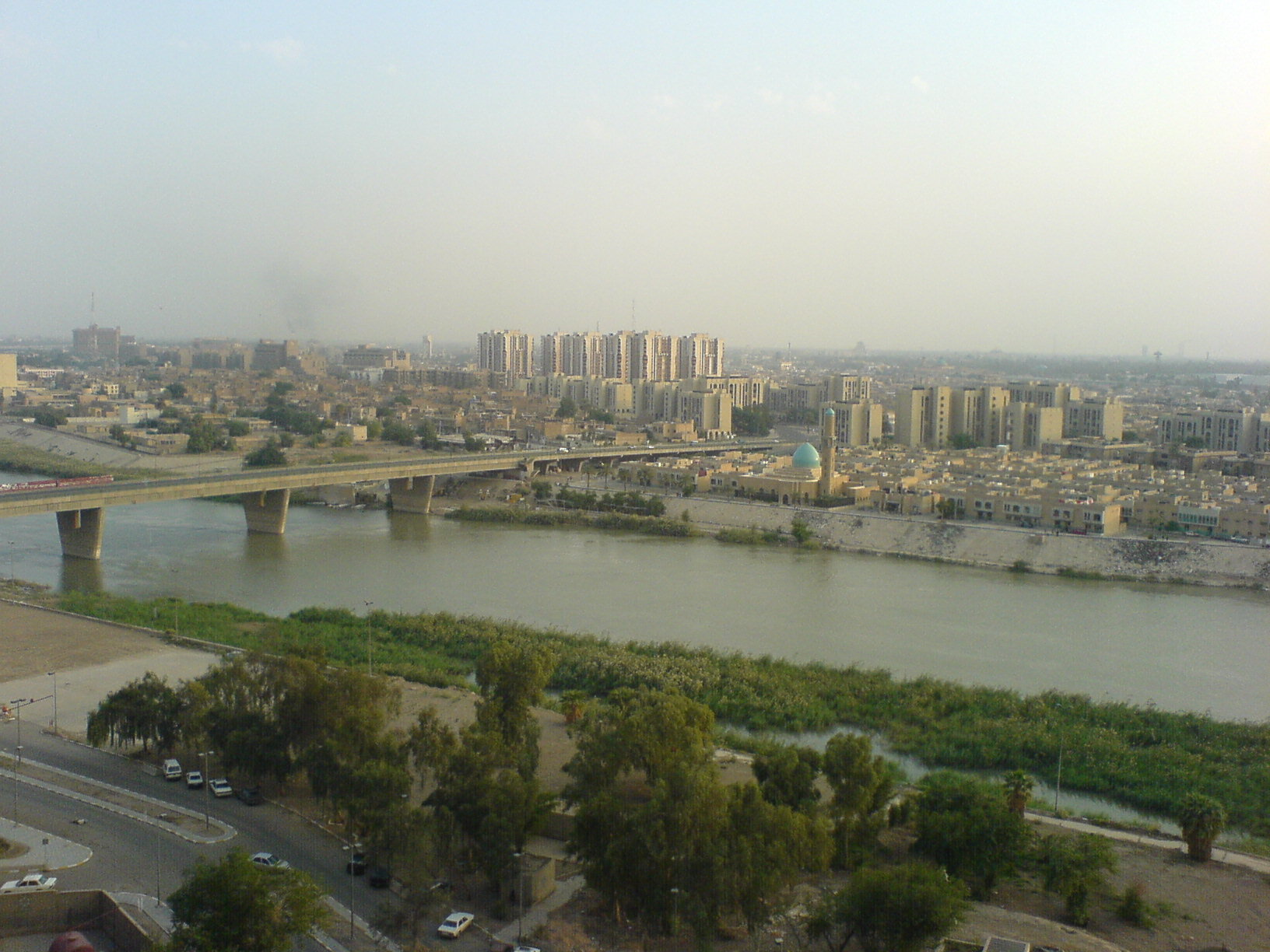 overlooking Tigris